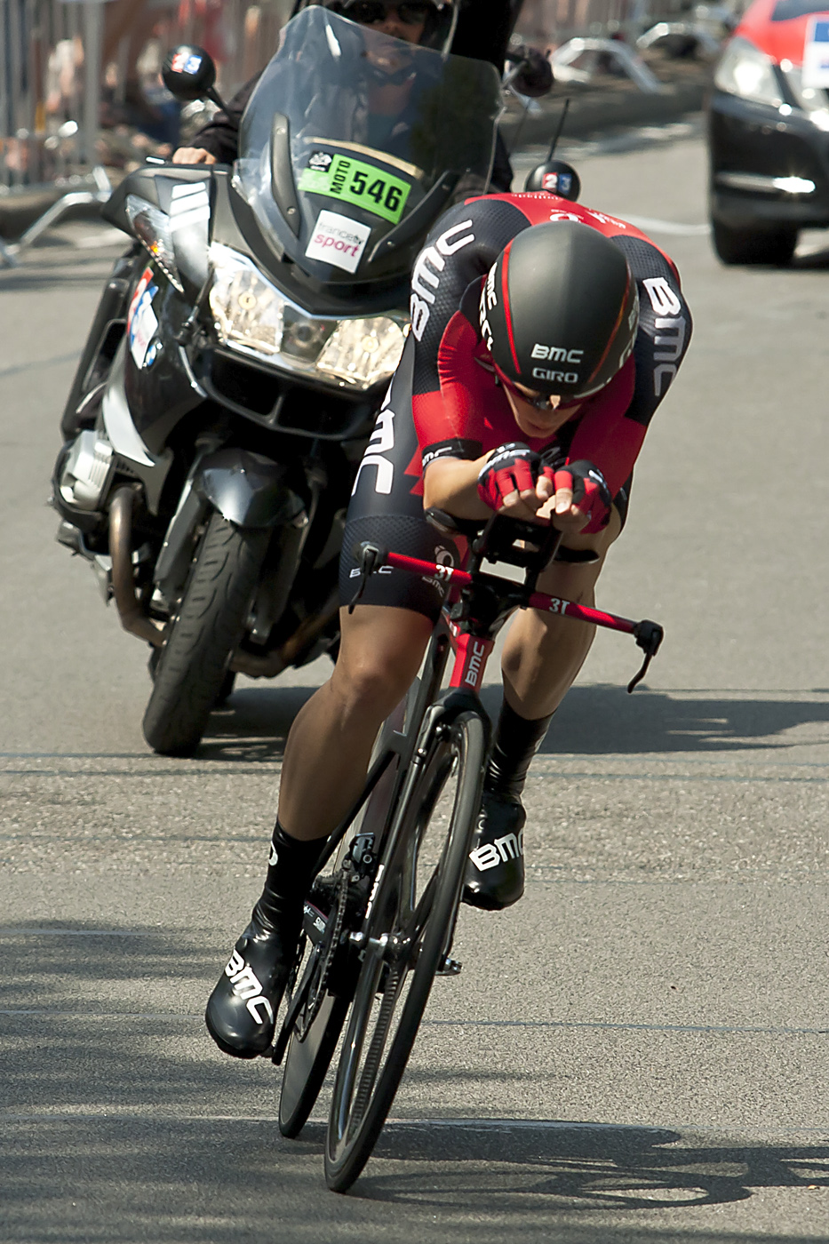 The winner of the first stage, clocking an average speed of 55.446 km/h! A new record average speed for an individual time trial at the Tour de France. Contre la Montre (time trial), the first stage of the Tour de France 2015. 18,3 km's in Utrecht, Netherlands.